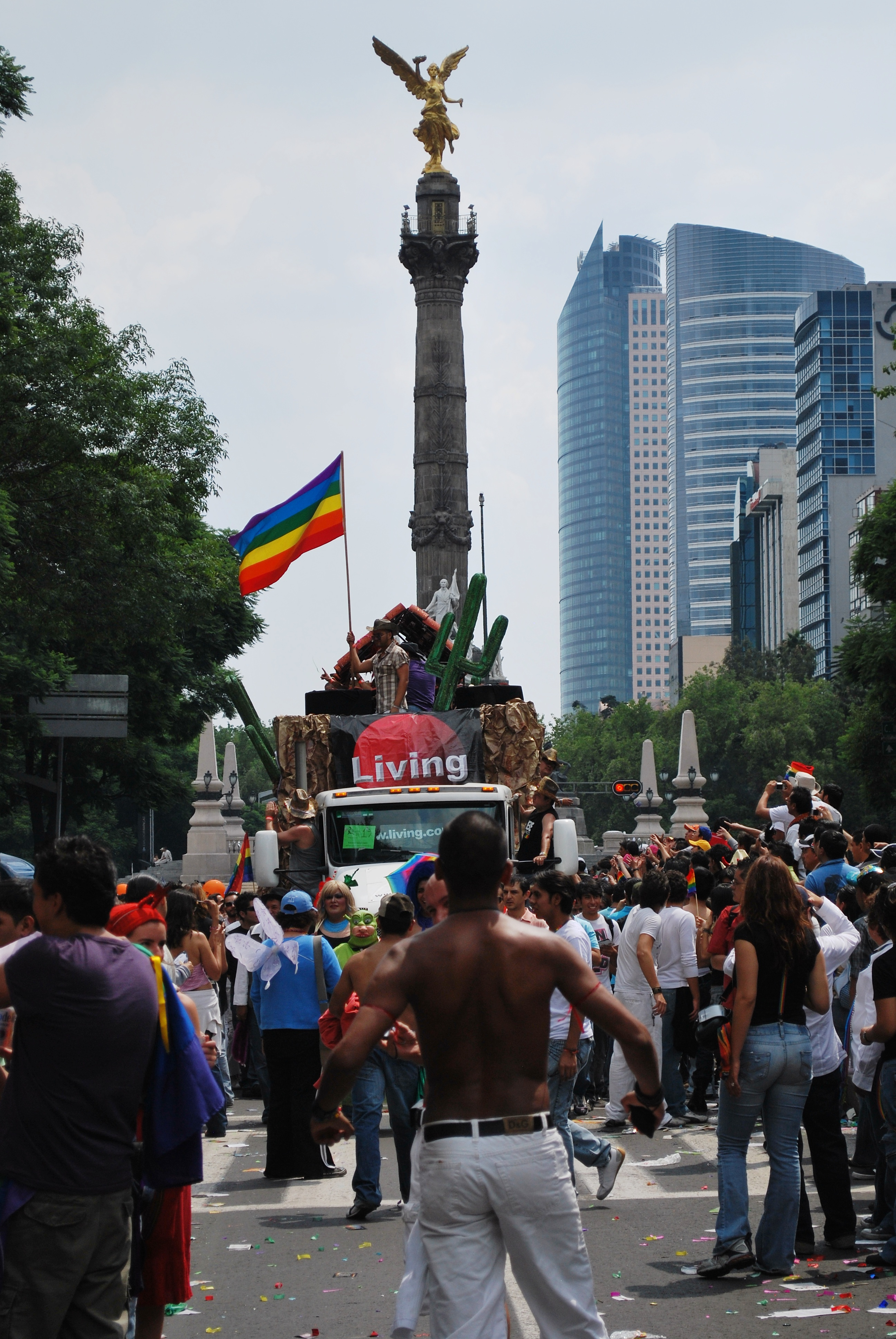 View of part of the 2009 Marcha Gay in Mexico City with the Angel Monument in the background